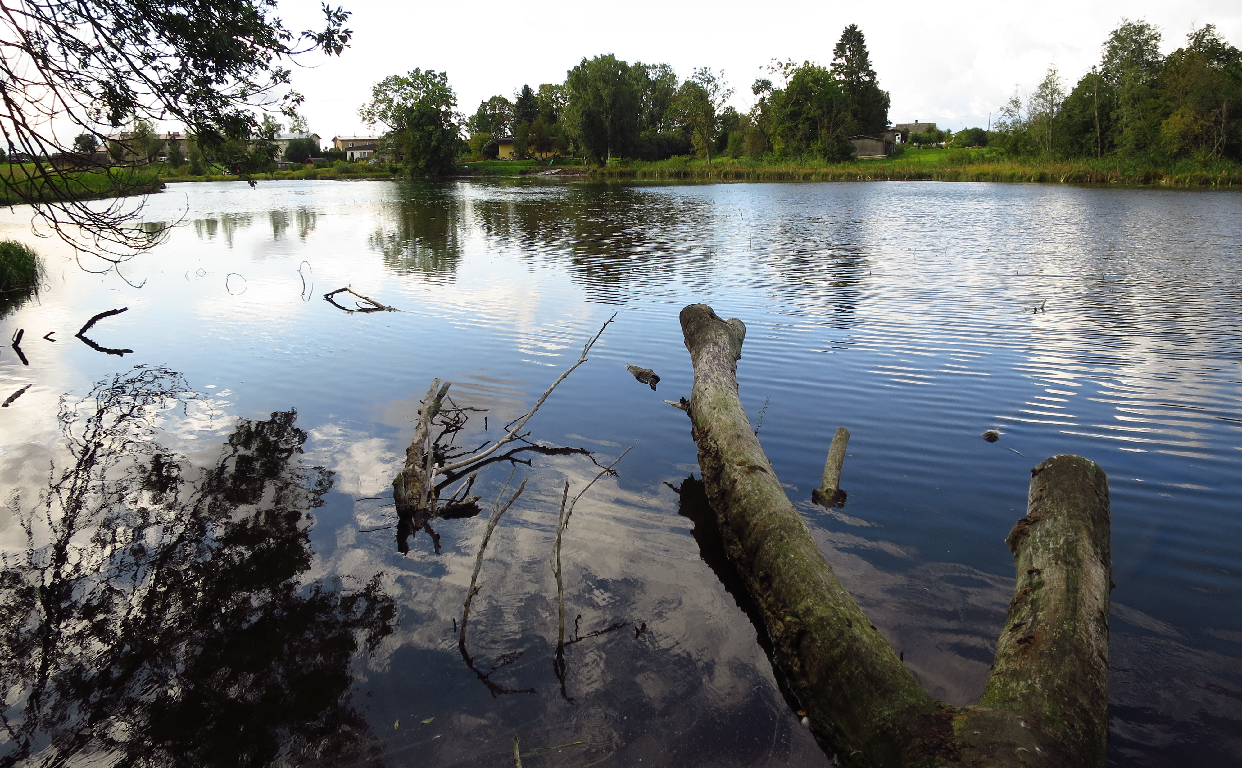 Vetiku Väikejärv Lääne-Virumaal